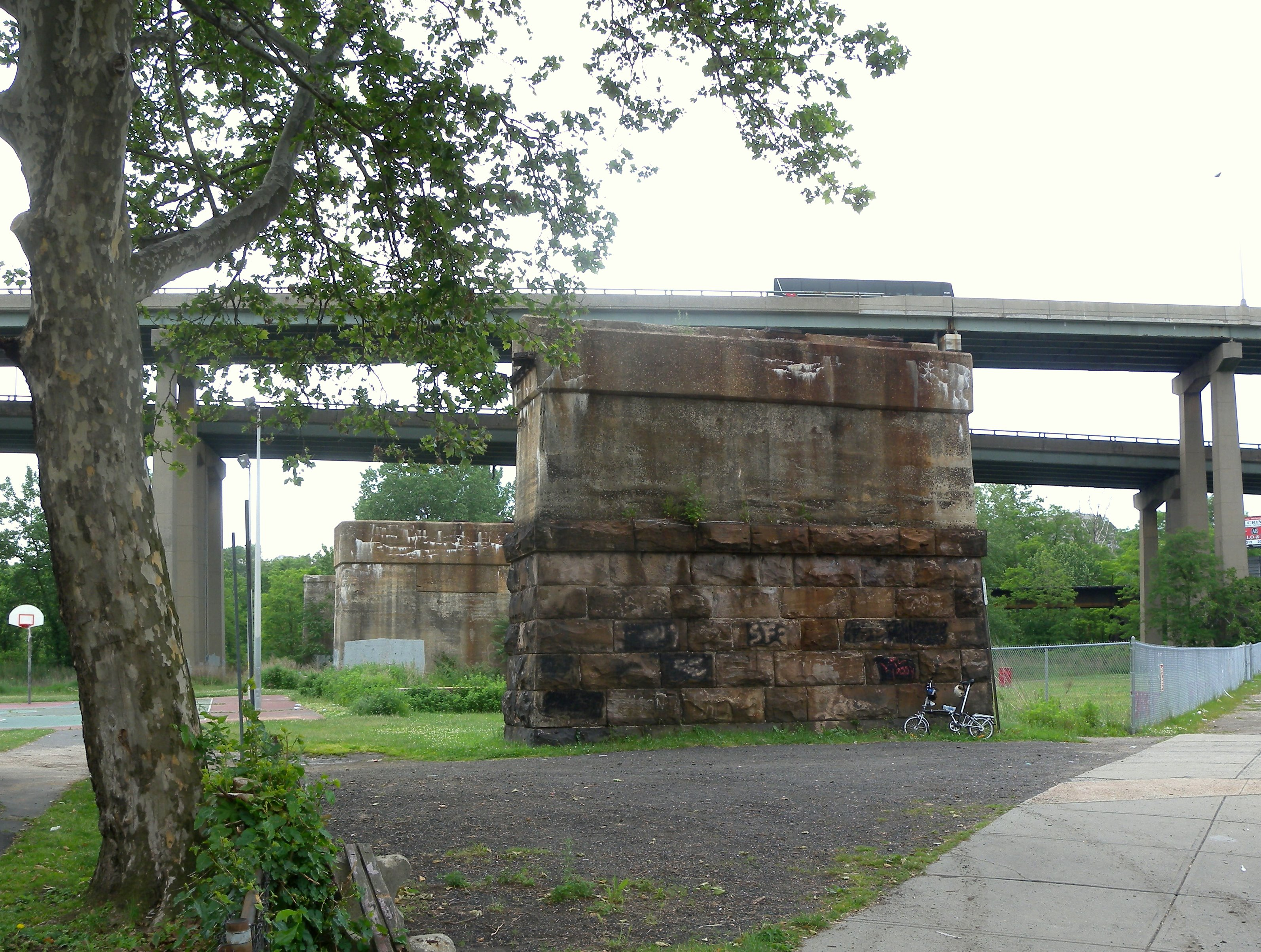 Looking west at piers for Harsimus Stem climbing towards main line on a cloudy afternoon.